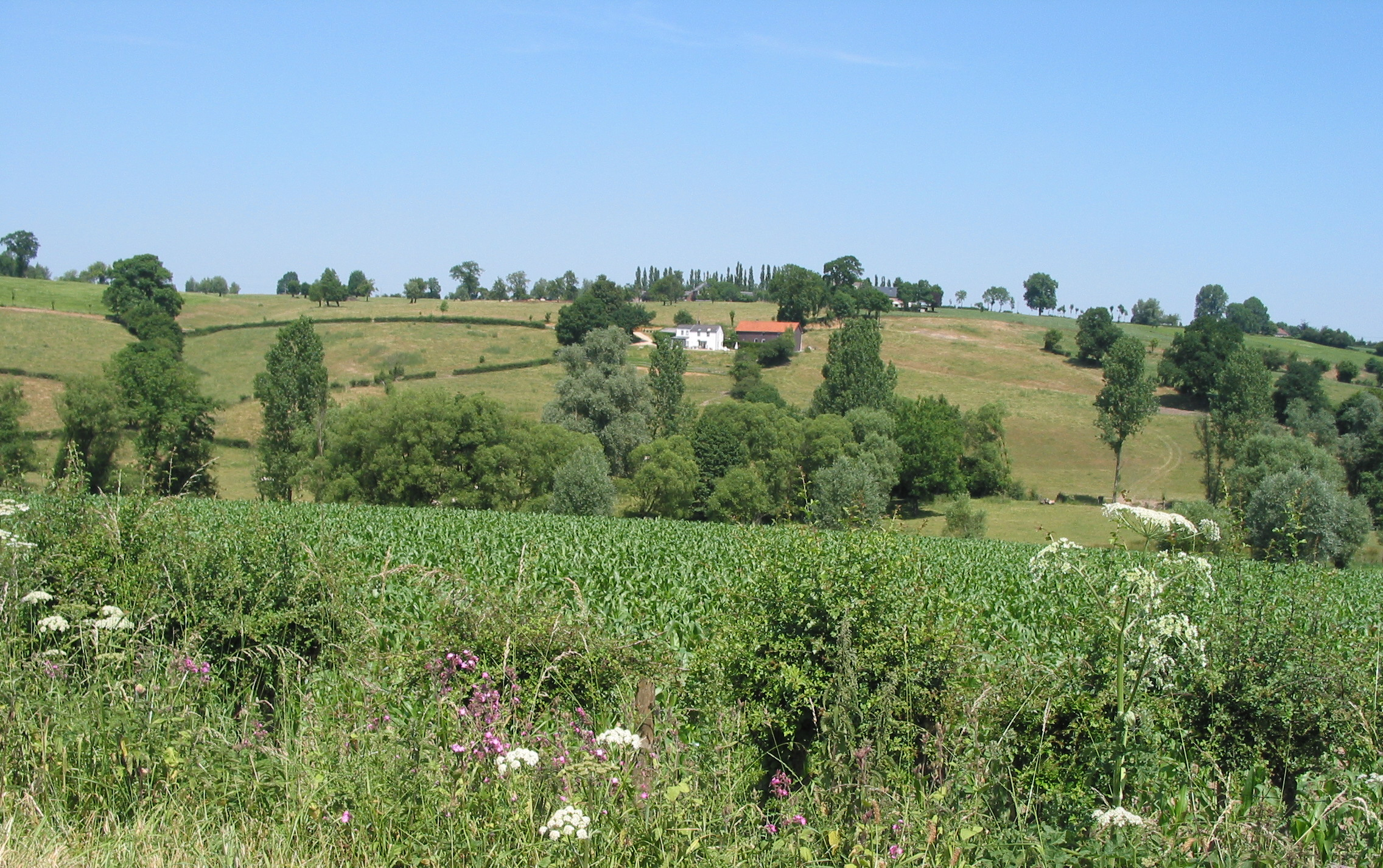 Aubel (Belgium), the "Pays d'Aubel" area.